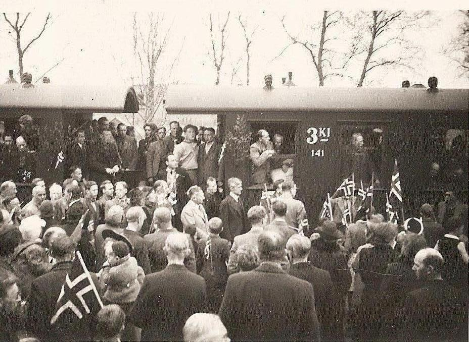 Skatval Station at 8. May 145, when WWII ended. The author died for more than 15 years ago (see "permission-tag")